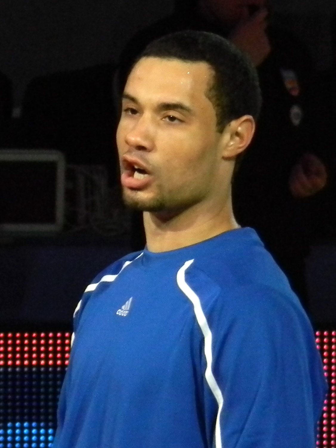 Trajan Langdon, american Basketball player, at all-star PBL game 2011